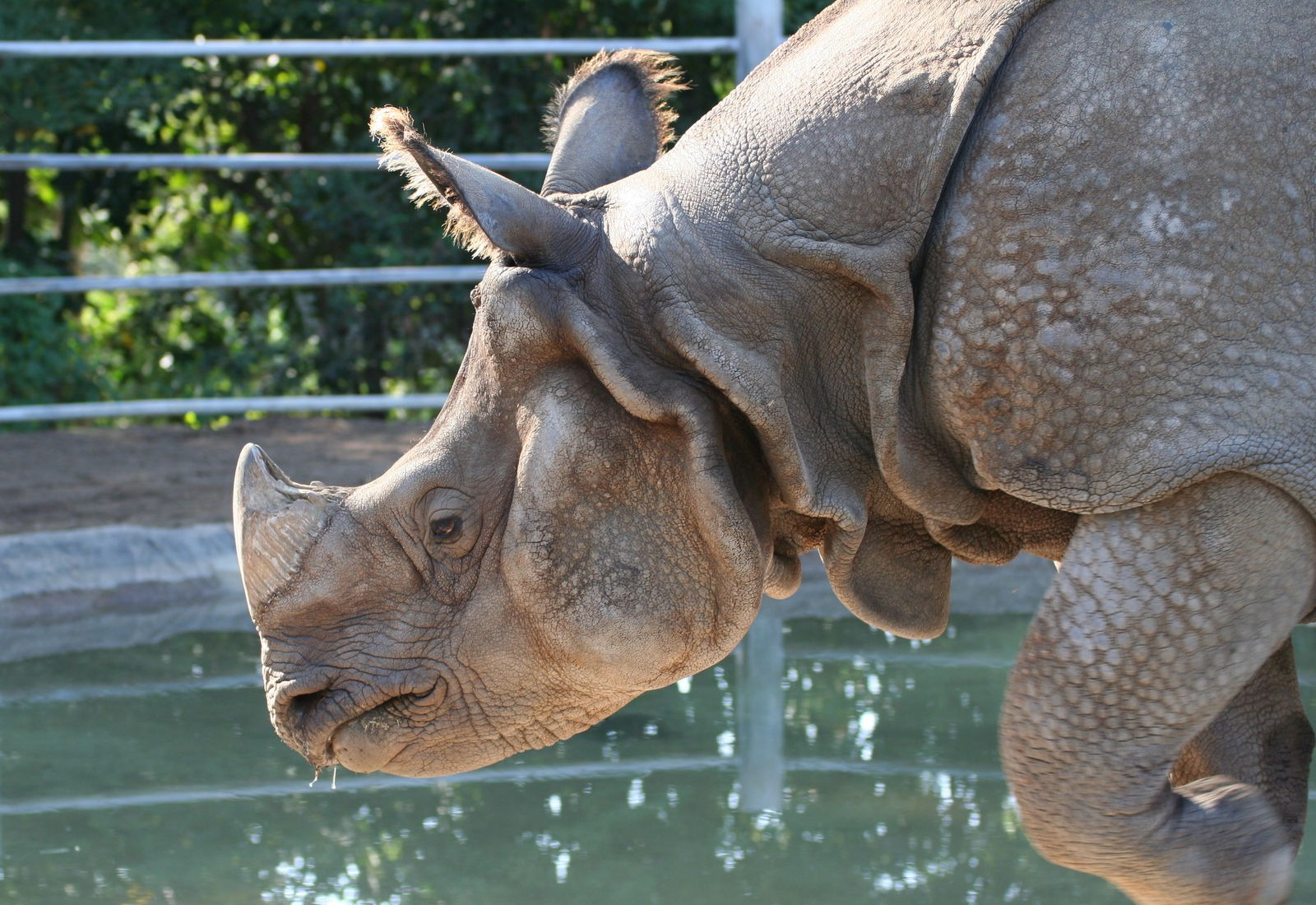 Rhinoceros at the San Diego Zoo Picture taken and uploaded by Sepht